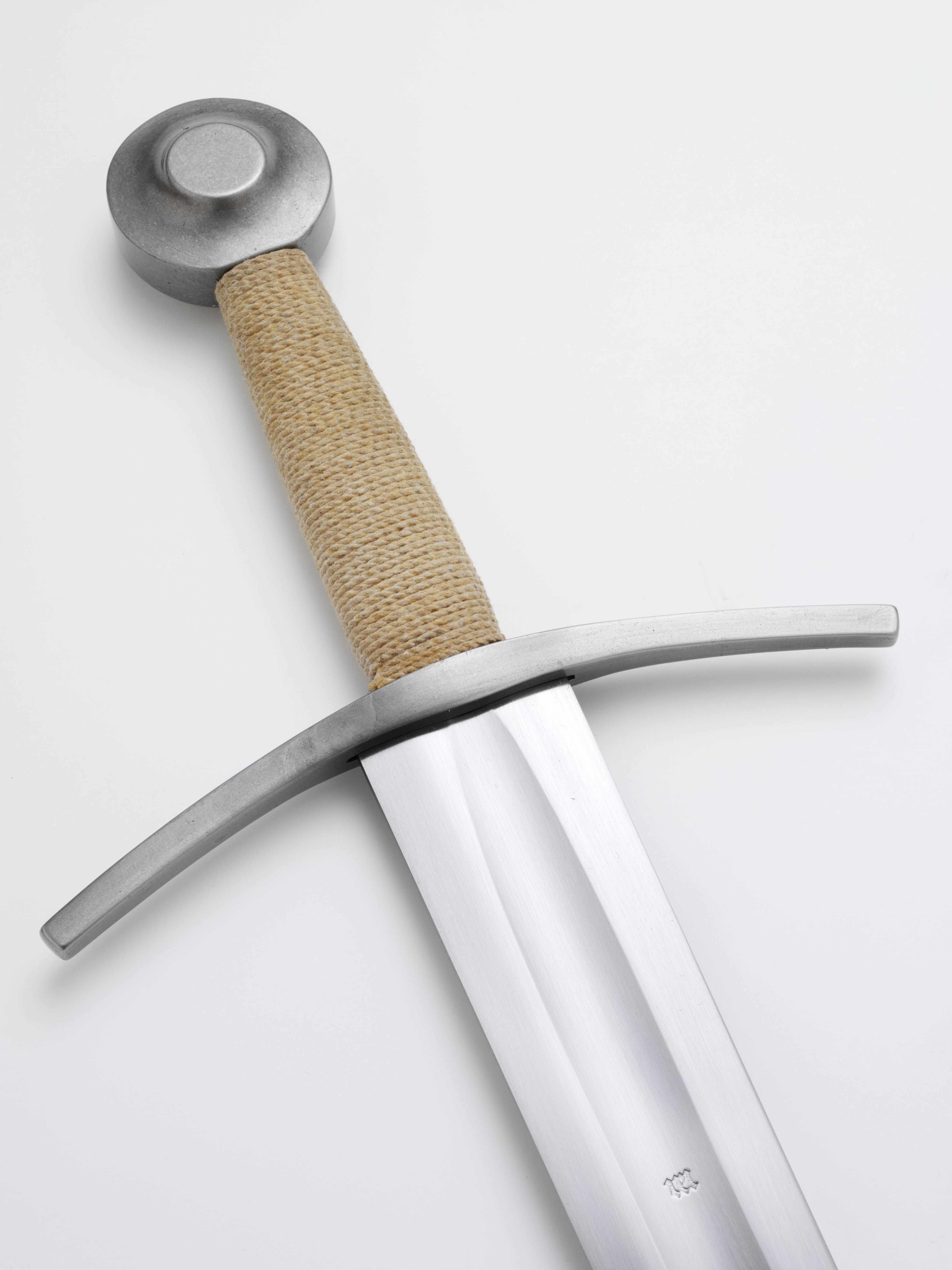 The I:33 This sword exhibits the look and handling characteristics of the swords used in the plates from "Fechtbuch I.33," an anonymous German manuscript from approximately 1300. It is highly significant as the earliest surviving manual of swordsmanship. Known as Manuscript I.33 (and pronounced "One thirty-three" rather than "Eye-thirty-three") it deals entirely with the use of the Medieval sword and buckler. This "Sword & Buckler" manuscript now in the collection of the Royal Armouries in Leeds, England, has been traditionally referred to as the "Tower Fechtbuch", or number I.33 (Tower of London manuscript I.33, Royal library Museum, British Museum No. 14 E iii, No. 20, D. vi.). The sword features rounded edges, stainless steel hilt components, and a treated cord-wrapped grip. This sword would be a suitable practice equivalent for the Next Generation Sherriff, Yeoman, Soveriegn and the Museum Line Solingen swords.